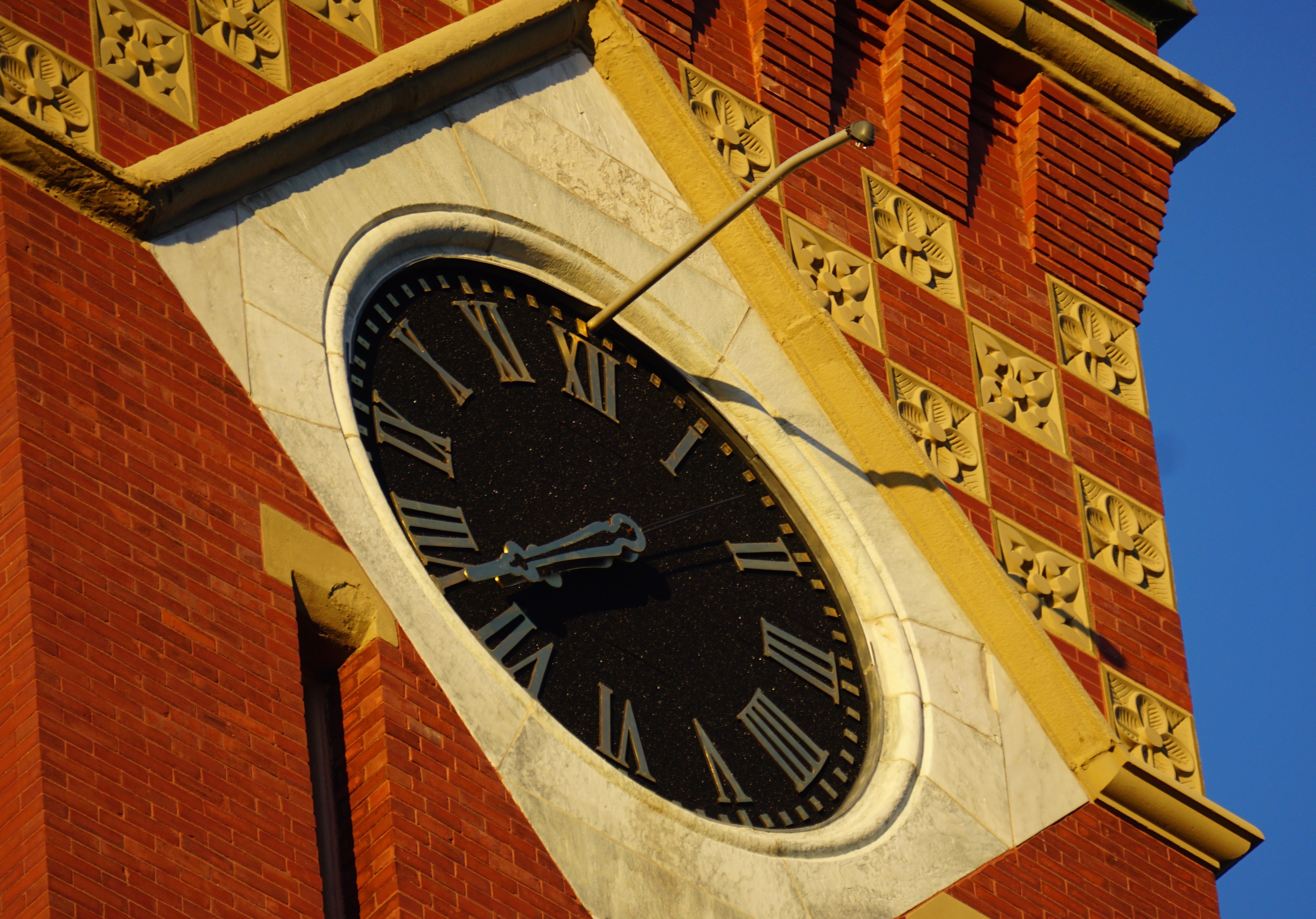 Clock